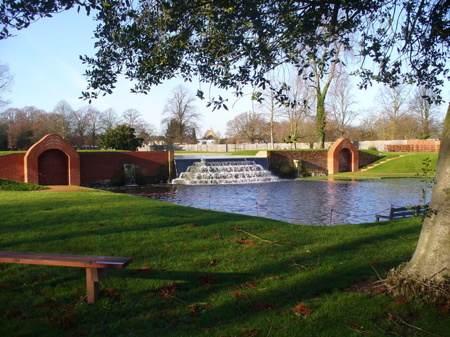 Cascades and Lower Pond Within the Upper Lodge Water Gardens in Bushy Park.